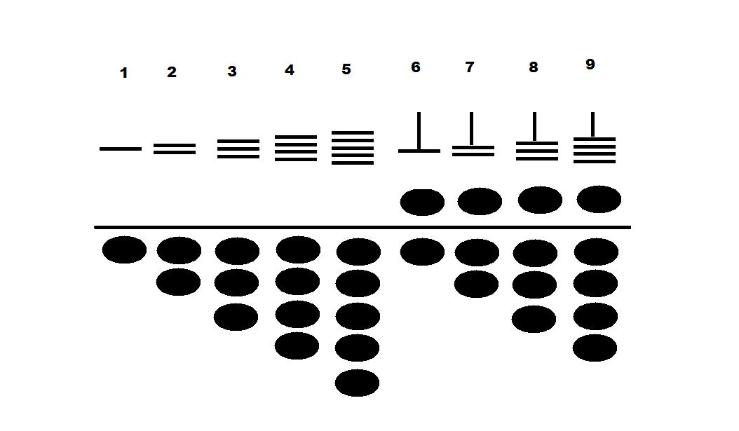 Suanpan --re-incarnation of counting rods